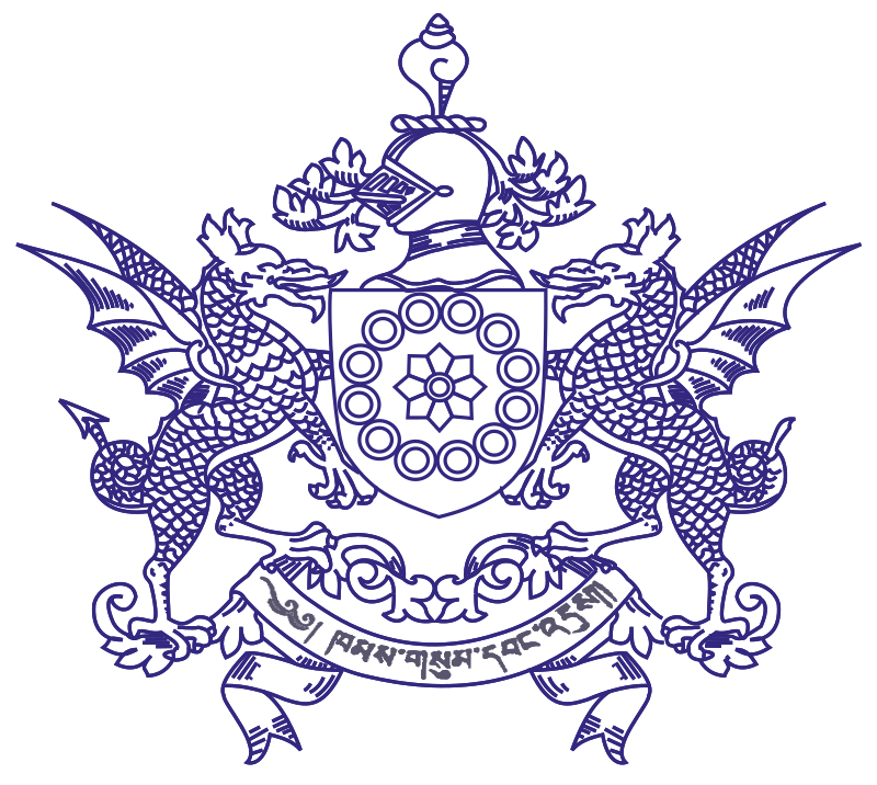 Seal of the government of Sikkim, India